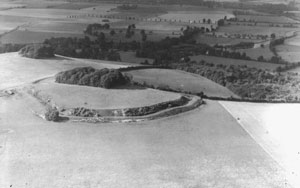 An aerial view of Wittenham Clumps in Oxfordshire. The Ashmolean Museum's description is "Wittenham Clumps, Oxfordshire taken on Allen's last recorded flight 27 August 1939 (Album Ref 19, 38)".